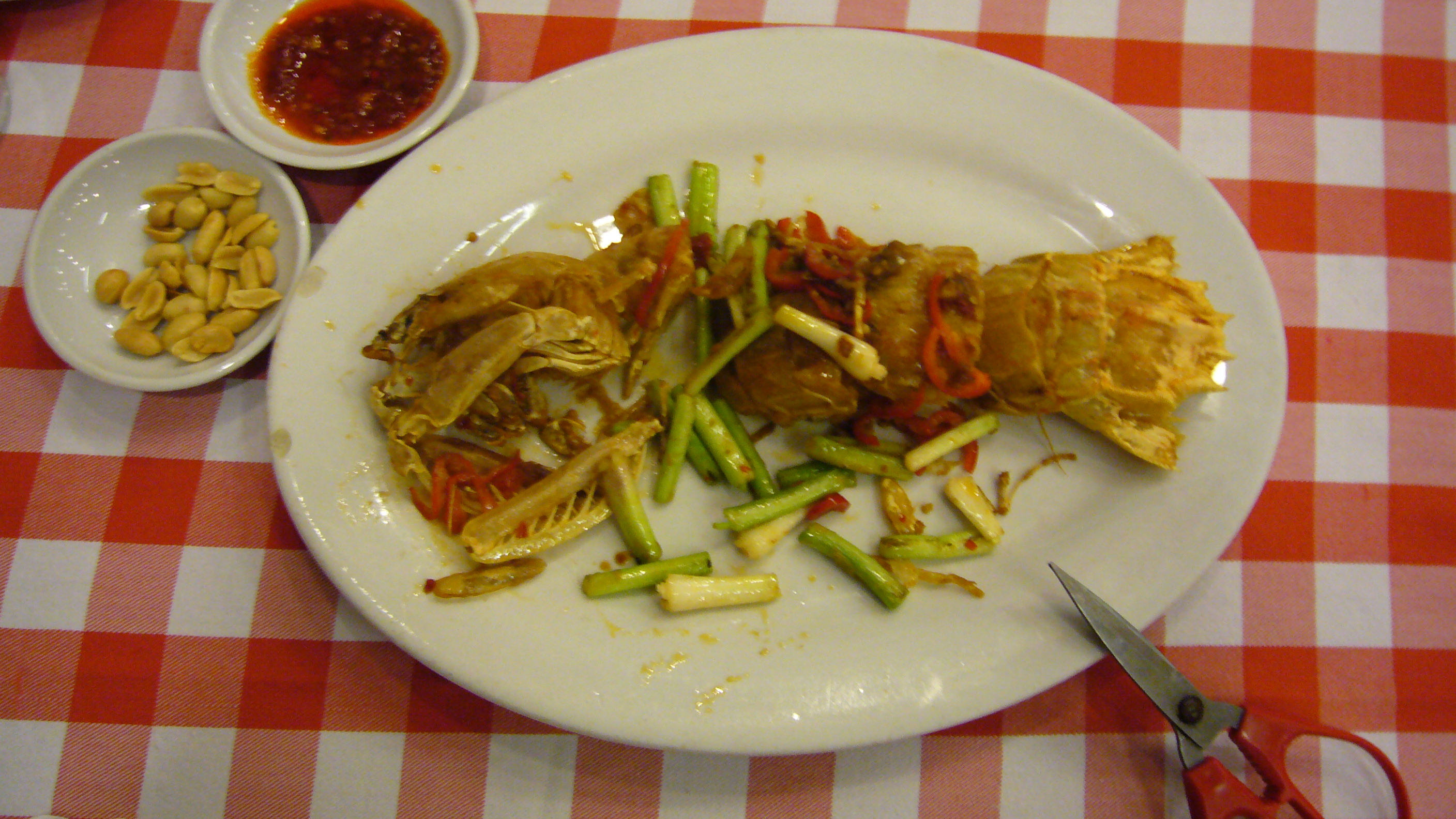 Fried Mantis Shrimp in Typhoon Shelter Style (Hong Kong Style)